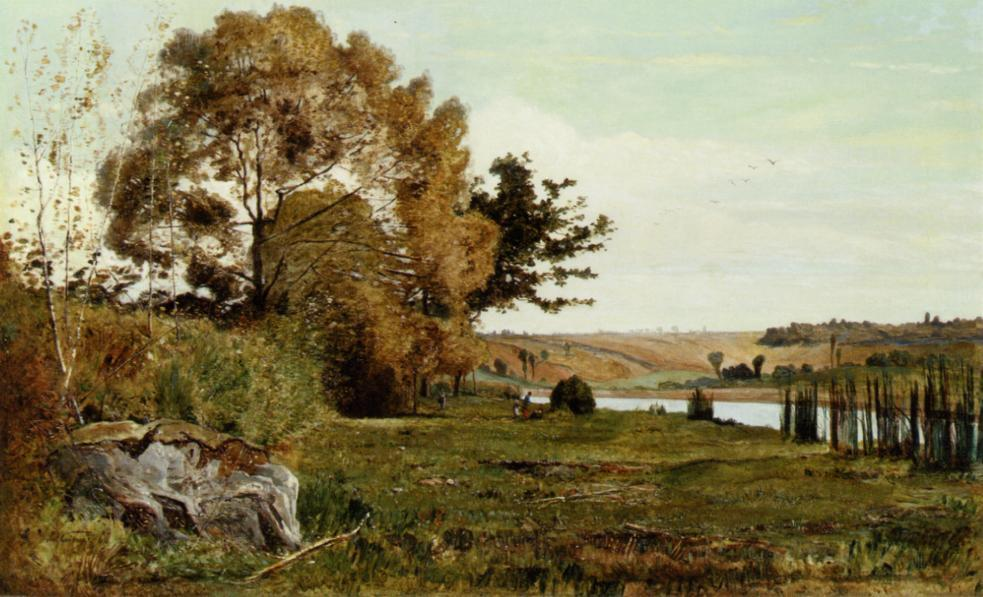 An Autumn Morning